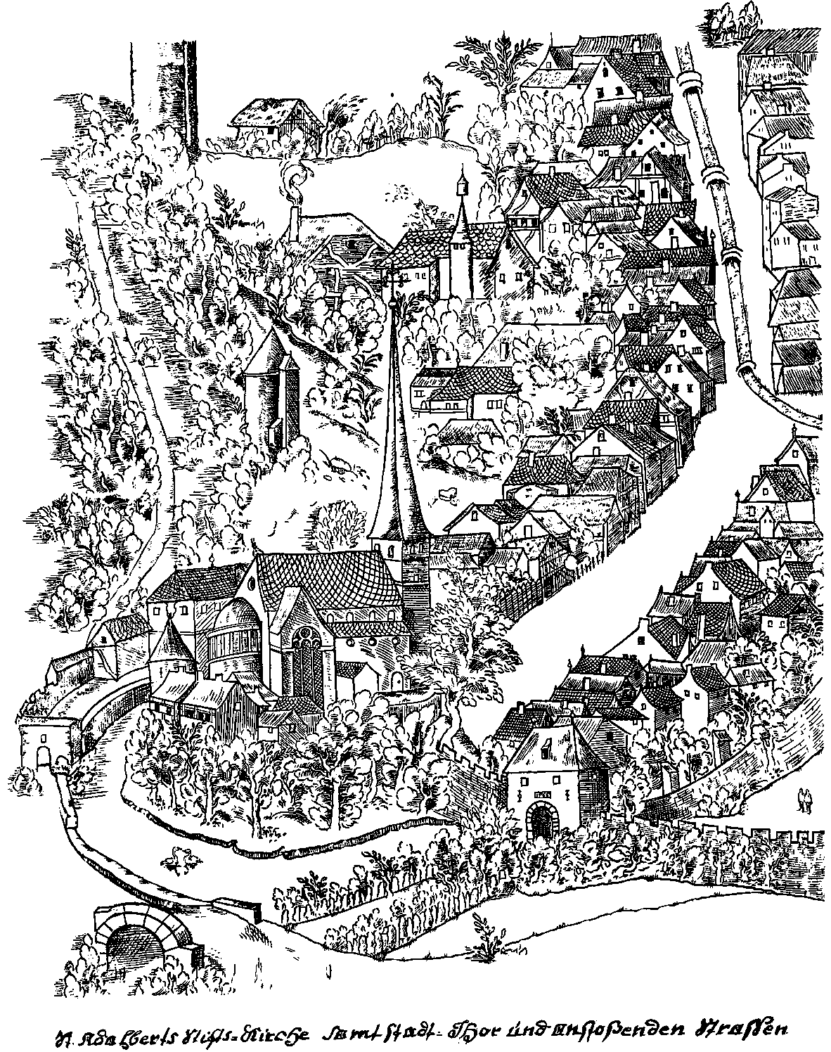 St. Adalbert's church, town gate and adjacent streets